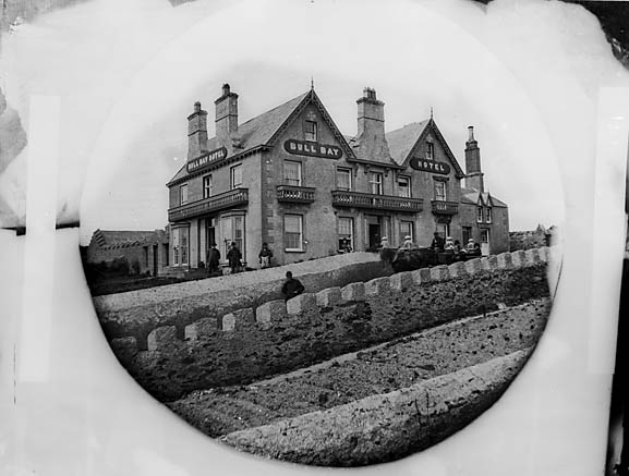 1 negative : glass, wet collodion, b&w ; 16.5 x 21.5 cm.